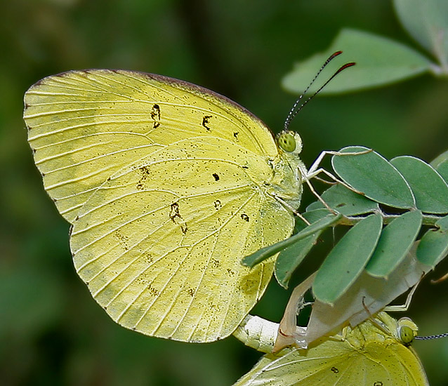 Common Grass Yellow Eurema hecabe in Narsapur, Andhra Pradesh, India.